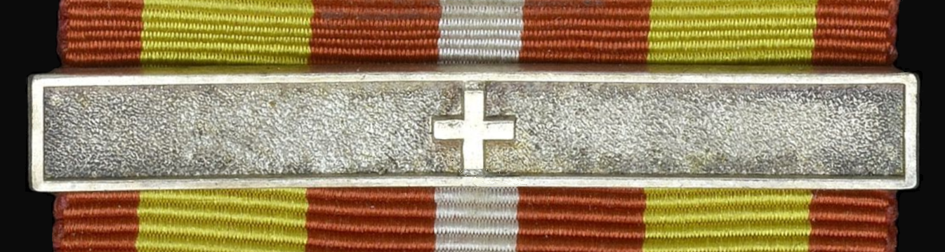 Ribbon clasp for second award, British Red cross long service medal